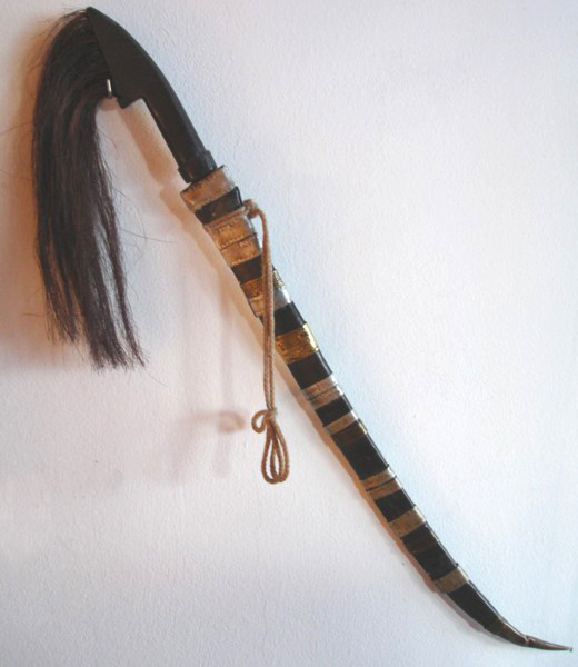 A surik. A traditionell sword from East Timor. This one is from Maubisse.